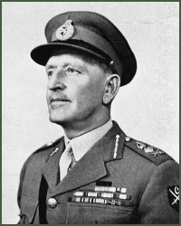 General Gracey Douglas David photographed 1951